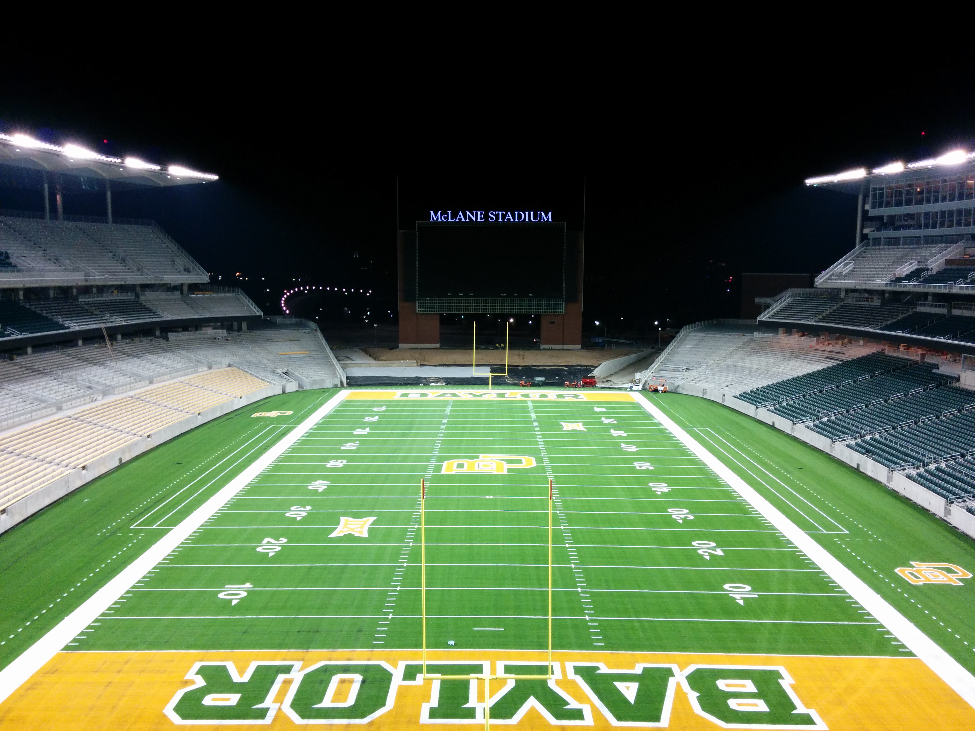 McLane Stadium south endzone construction photo 7/16/14